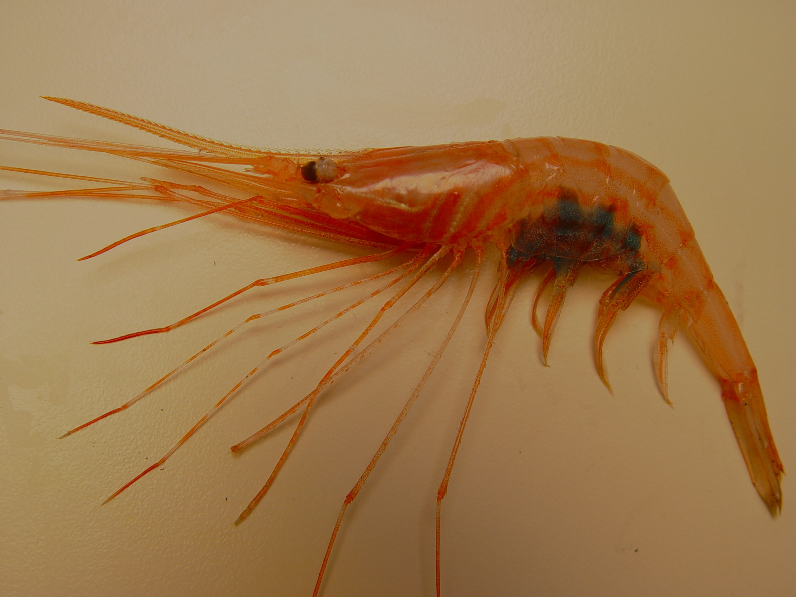 Royal red shrimp ( Pleoticus robustus ). Gulf of Mexico.